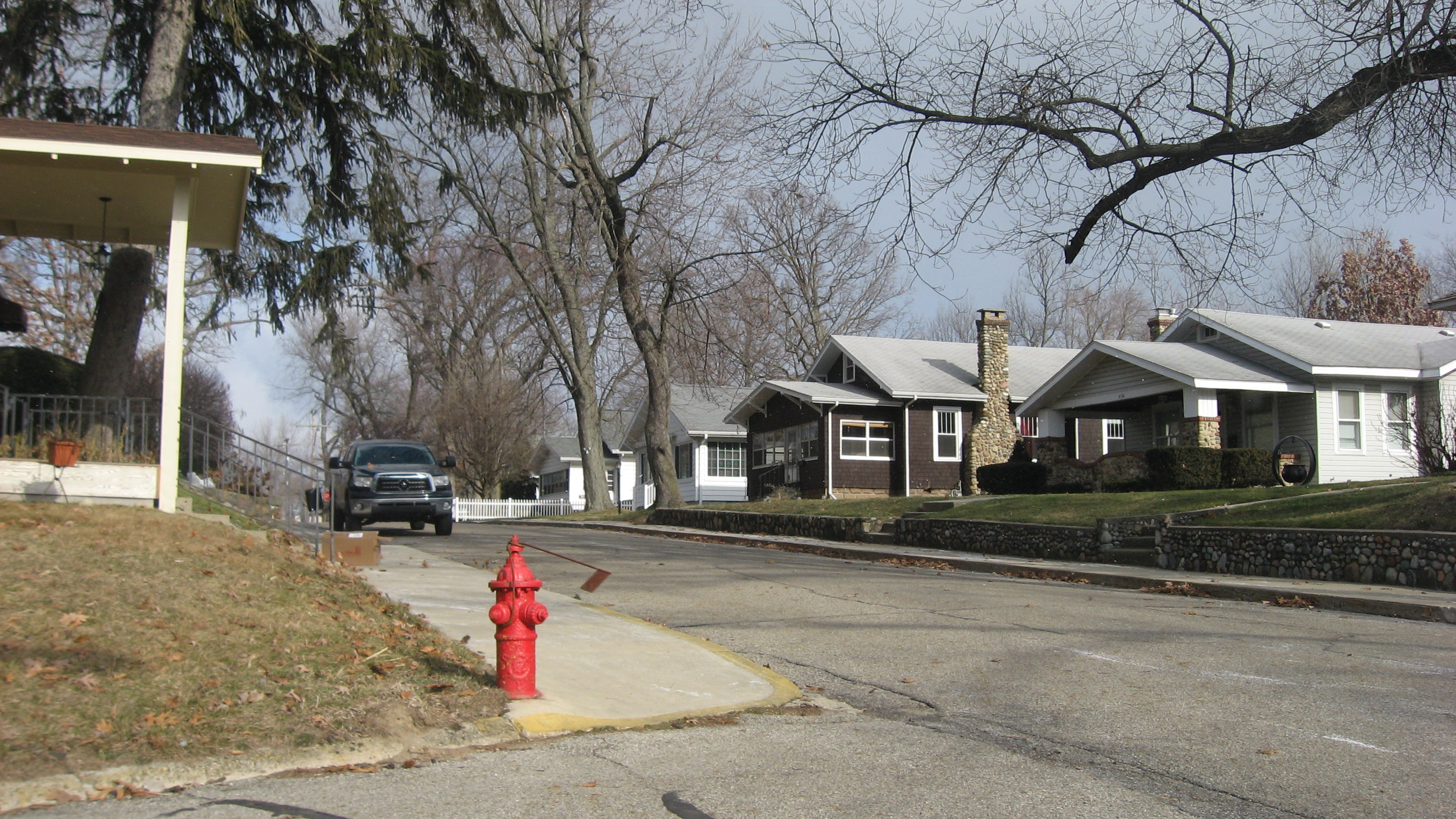 Houses at 450, 444, 442, and 434 Forest Place in Culver, Indiana, United States. Built in 1920, they are part of the Forest Place Historic District, a historic district that is listed on the National Register of Historic Places.